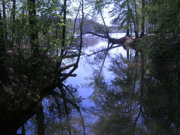 A view of the Fall Mountain Trail at Morrow Mountain State Park. Taken by User:daNASCAT in April 2007. No editing included.